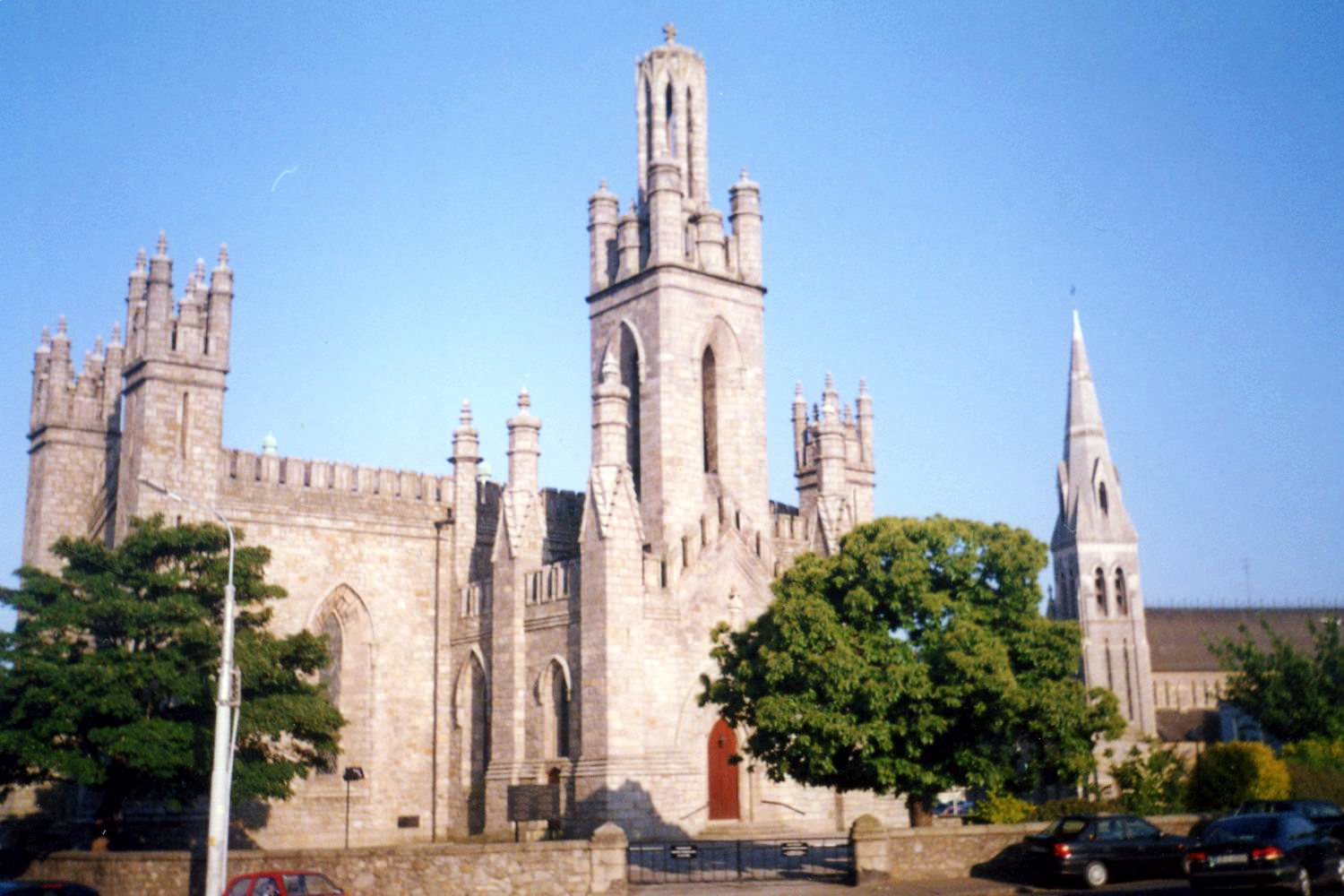 Monkstown Church, Monkstown, Ireland (2001)